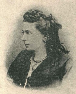 Photograph of Maryana Marrash (1848-1919), Syrian poet and writer.